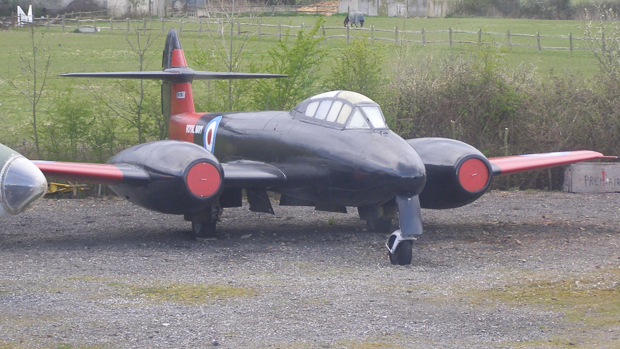 Gloster Meteor T7 at the Gatwick Aviation Museum, Surrey, England